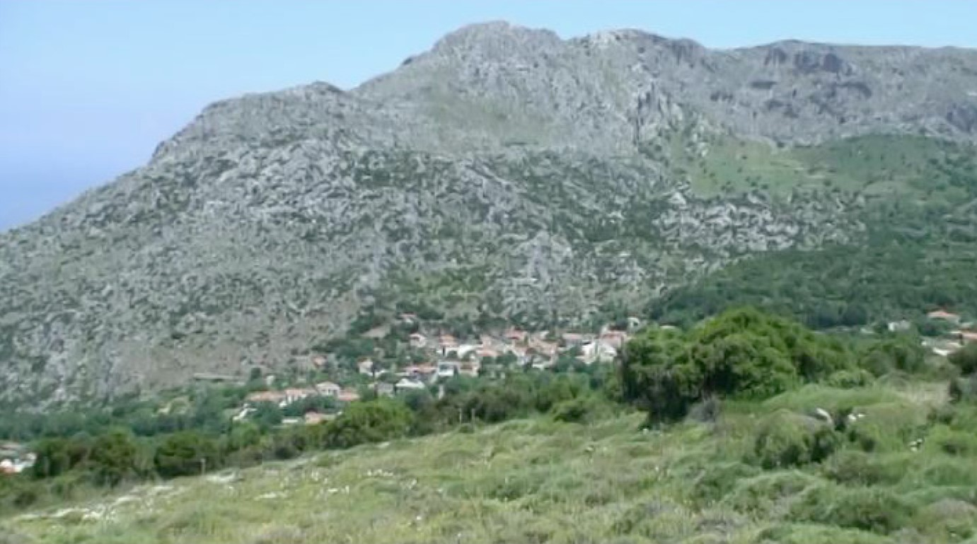 Rizovouni mount